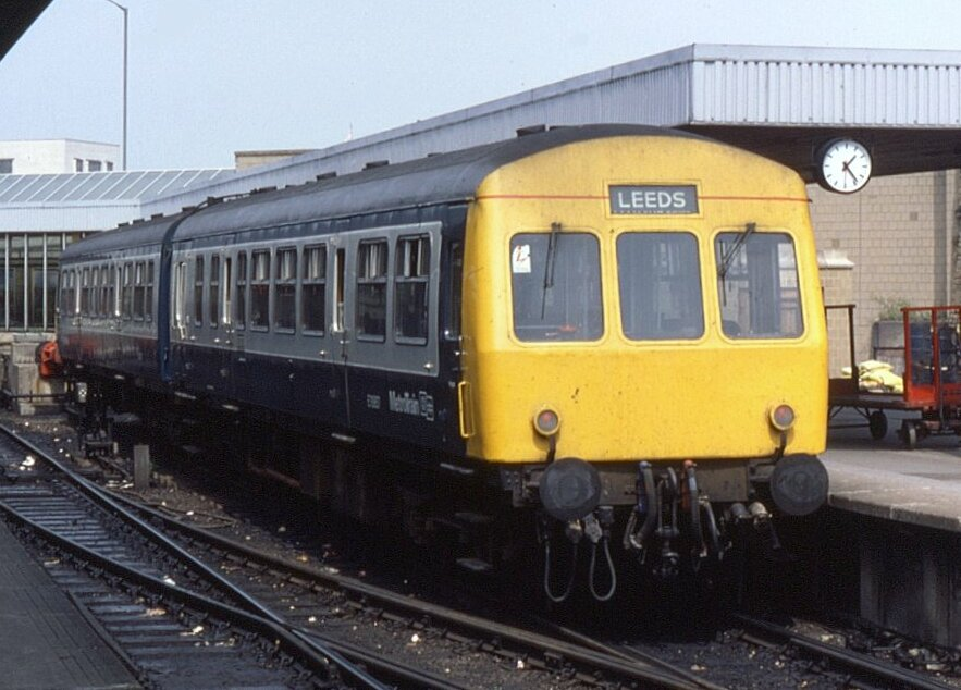 Again taken during my July 1984 grand tour of the UK using an All Line Rover. Seen at Bradford Interchange on 22 July 1984 is 2-car Class 111 "MetCam" unit on a service destined for Leeds.